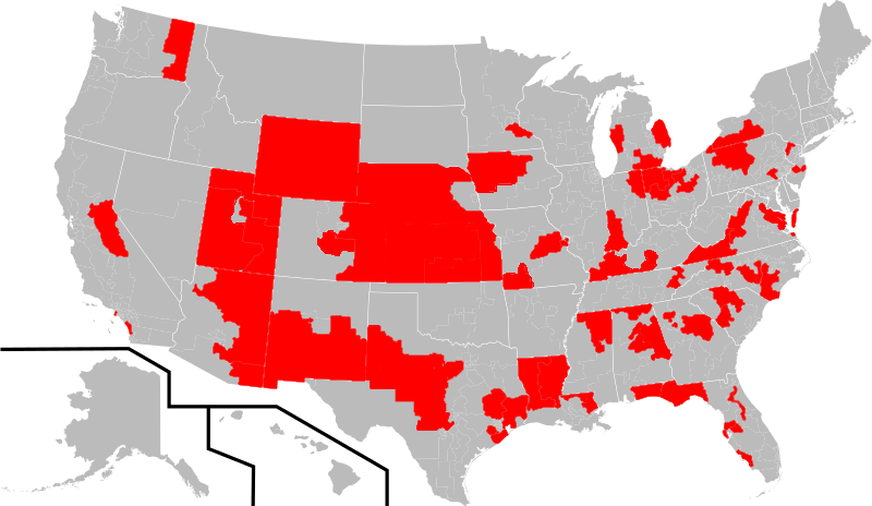 The image depicts a map of the US Congressional Districts, with the Districts of Congressional Constitution Caucus Members Highlighted